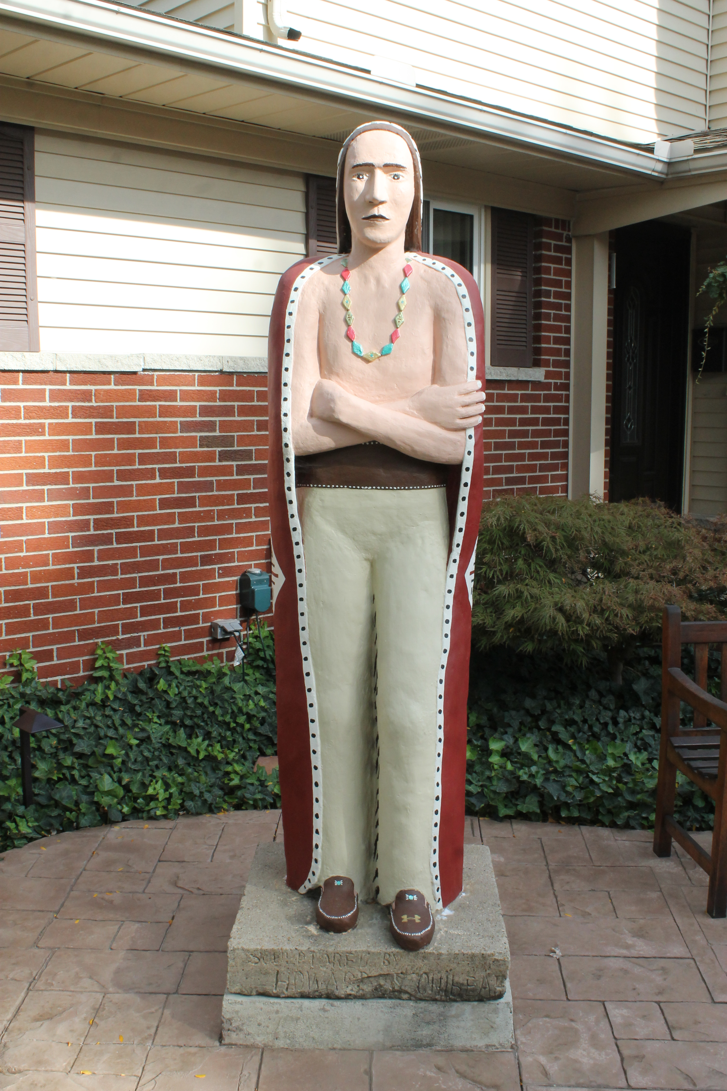 Originally from Hedge's Wigwam in Pleasant Ridge, Michigan.